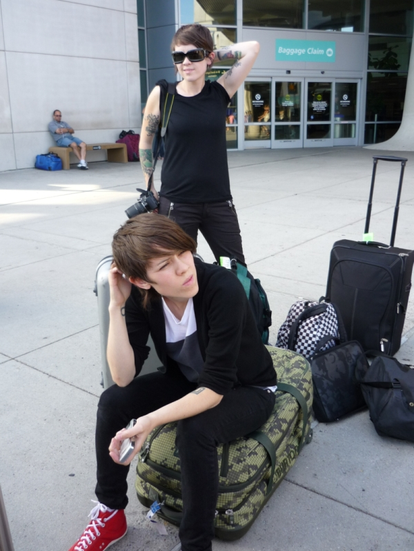 Tegan Rain Quin and Sara Kiersten Quin, Canadian singer-songwriters, at the San Diego Airport, on their 28th birthday, September 19, 2008.